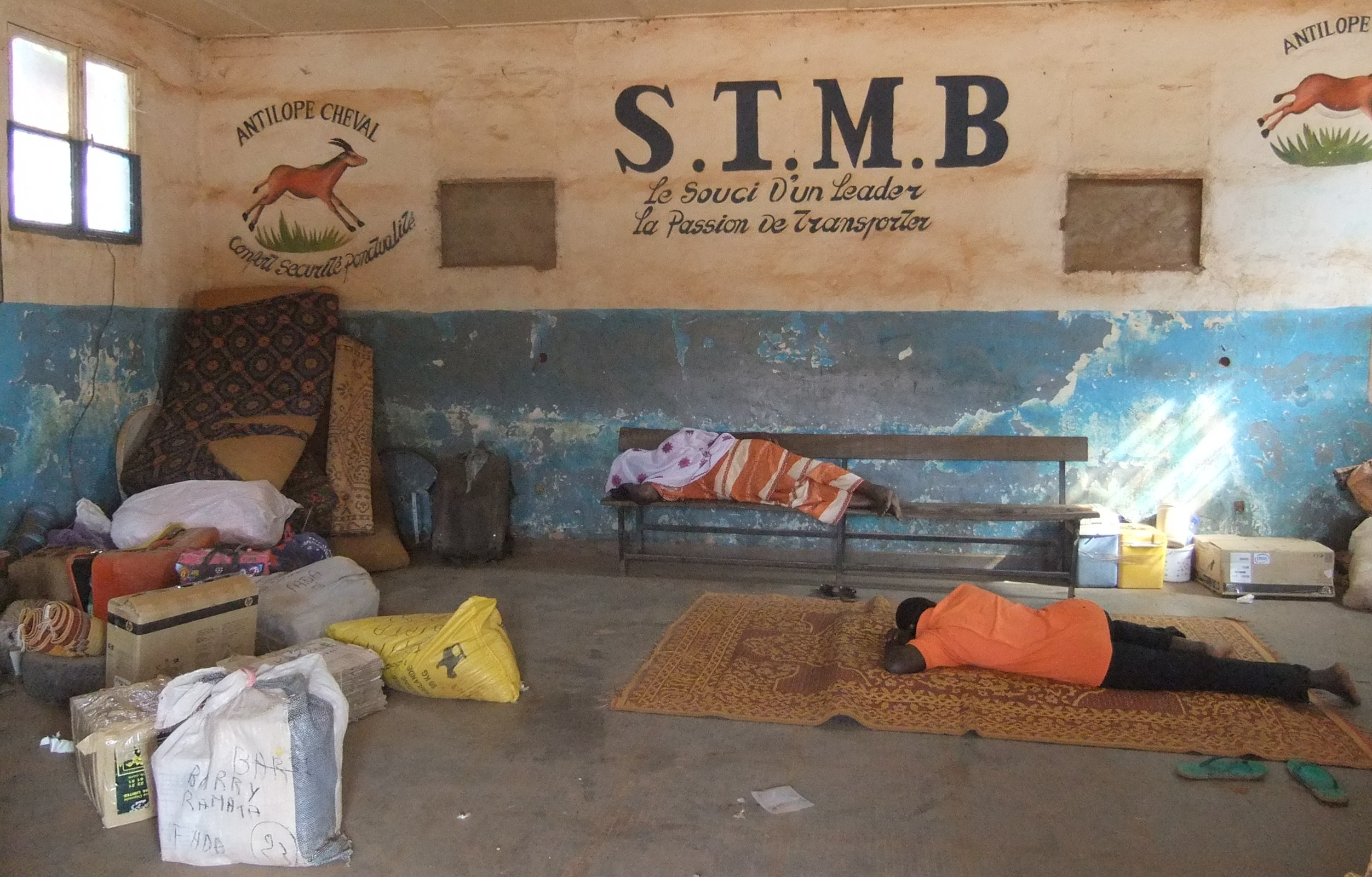 Fada Ngourma, Burkina Faso (STBM = Service de Transport Mixte Bangrin) This is an image of "African people at work" from Burkina Faso